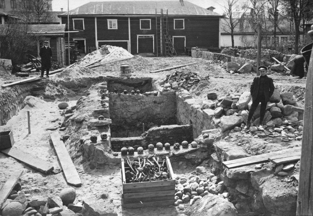 17th Century crypt found in 1911, Pori, Finland. Image by K. E. Klint (1865–1938)